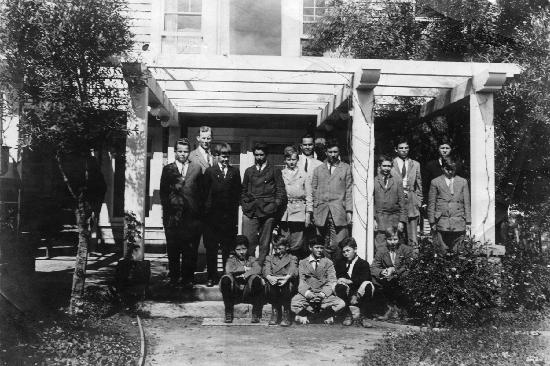 Cate School founder Curtis Wolsey Cate with his first class in 1910 at what he initially called "The Miramar School" (Gane House).